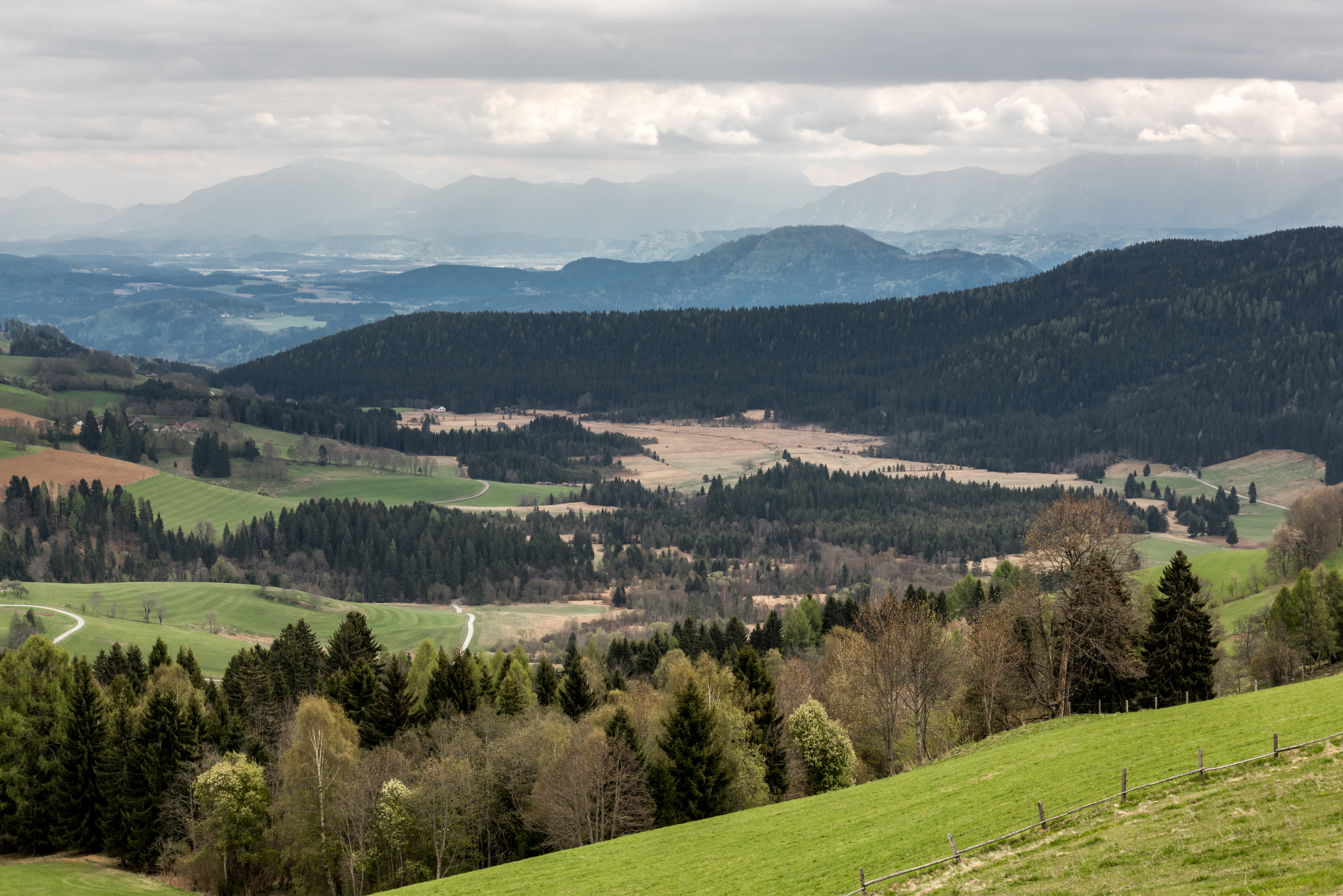 View of the Dobra moor in Gößeberg from Sankt Paul, municipality Sankt Urban, district Feldkirchen, Carinthia, Austria, EU